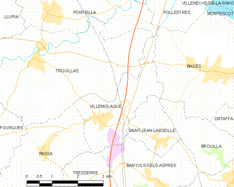 Map of French municipality